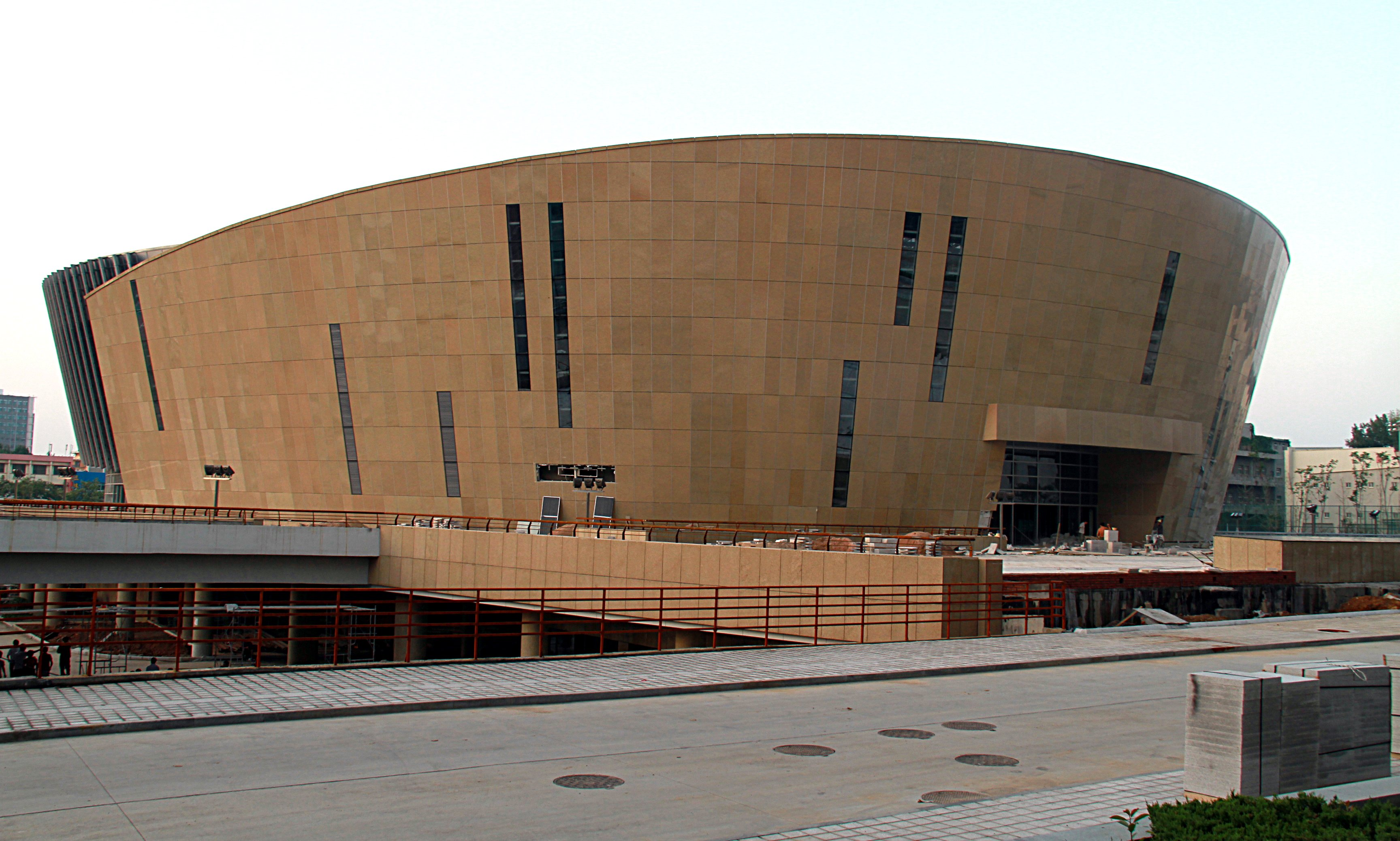 Photograph of the stadium (marble-clad side, under construction) on the Central Campus of Shandong University in Jinan, Shandong Province, China.